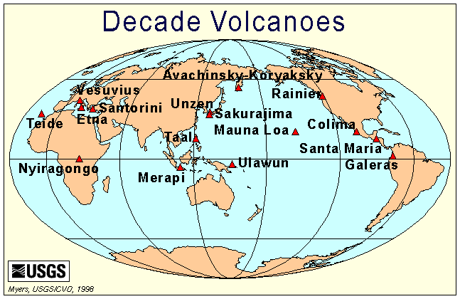 Decade Volcanoes location map. From [1].